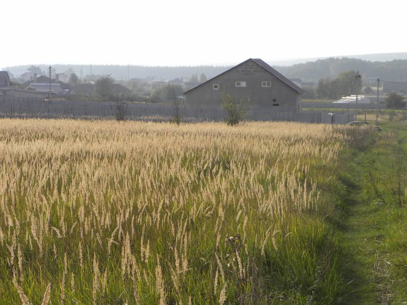 Ruski Tyshki - modern view